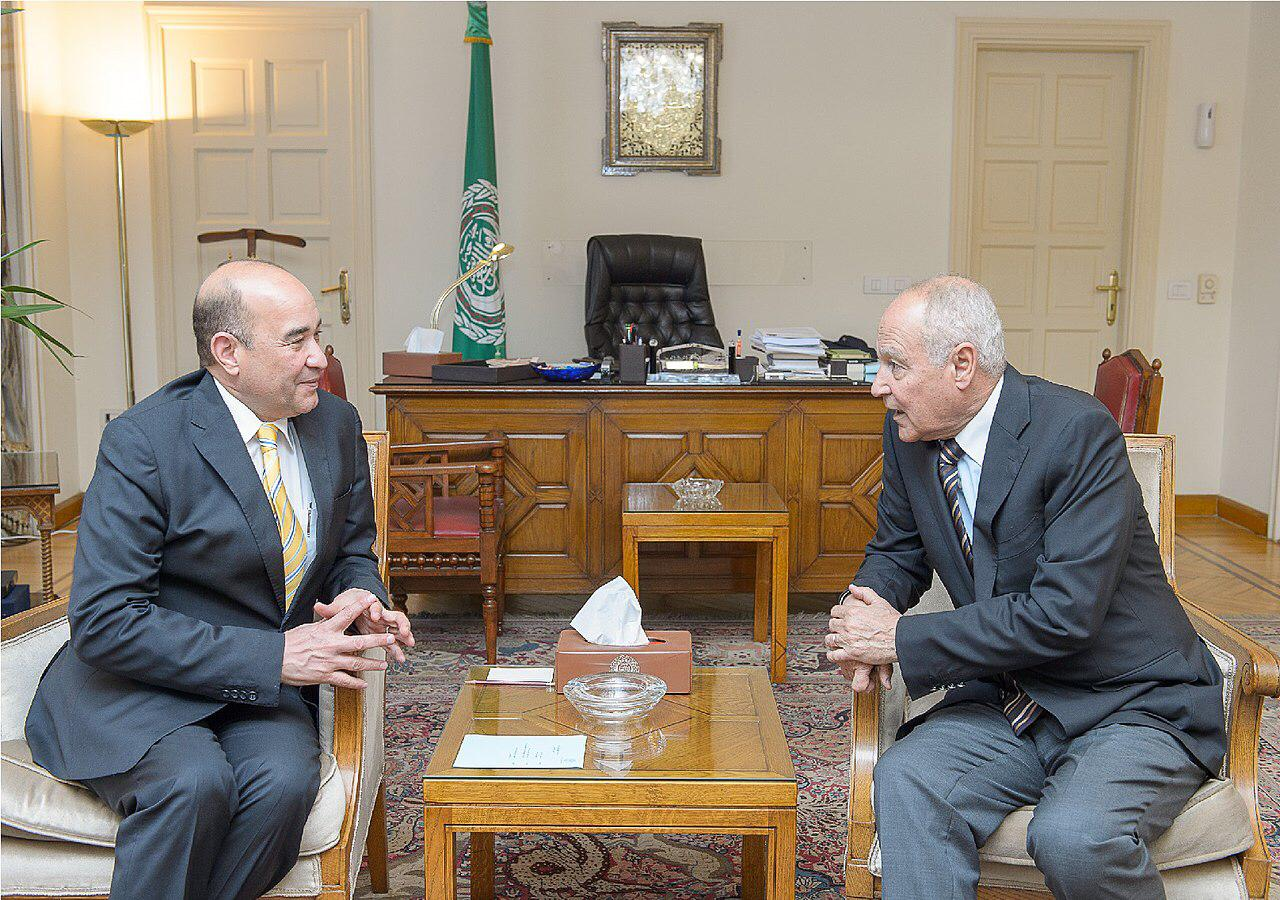 Alaa Thabet with the Secretary General of the League of Arab States, Ahmed Aboul Gheit